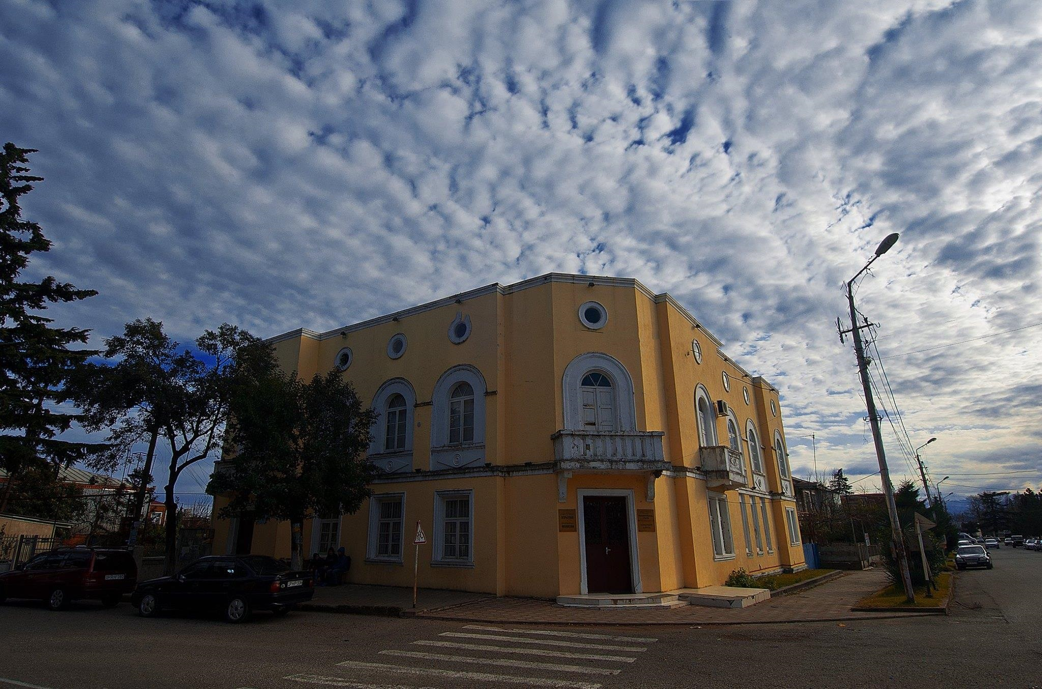 Shartava Museum in Senaki